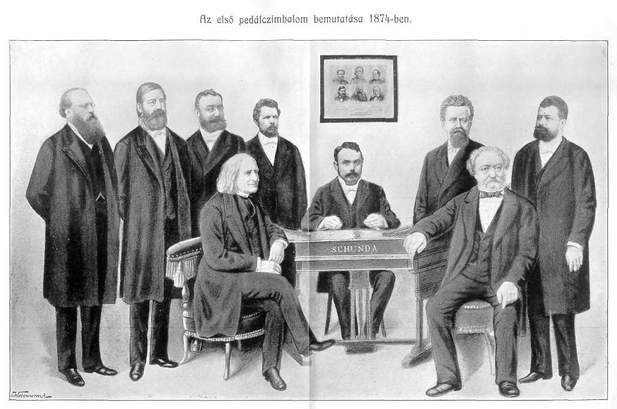 First presentation of Schunda's cimbalom in 1874. Left to right: Dr. Richter János, Id. Ábrányi Kornél, Erkel Gyula, Liszt Ferenc, Schunda V. József, Pintér Pál, Huber Károly, Erkel Ferenc, Erkel Sándor